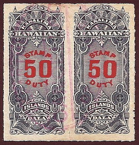 Image of Hawaii revenue stamp, $50 (not 50c)